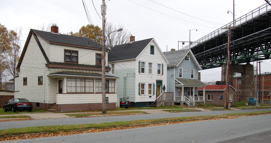 Streetscape in Harbourview, Dartmouth, Nova Scotia, 2007. Self-made photo.